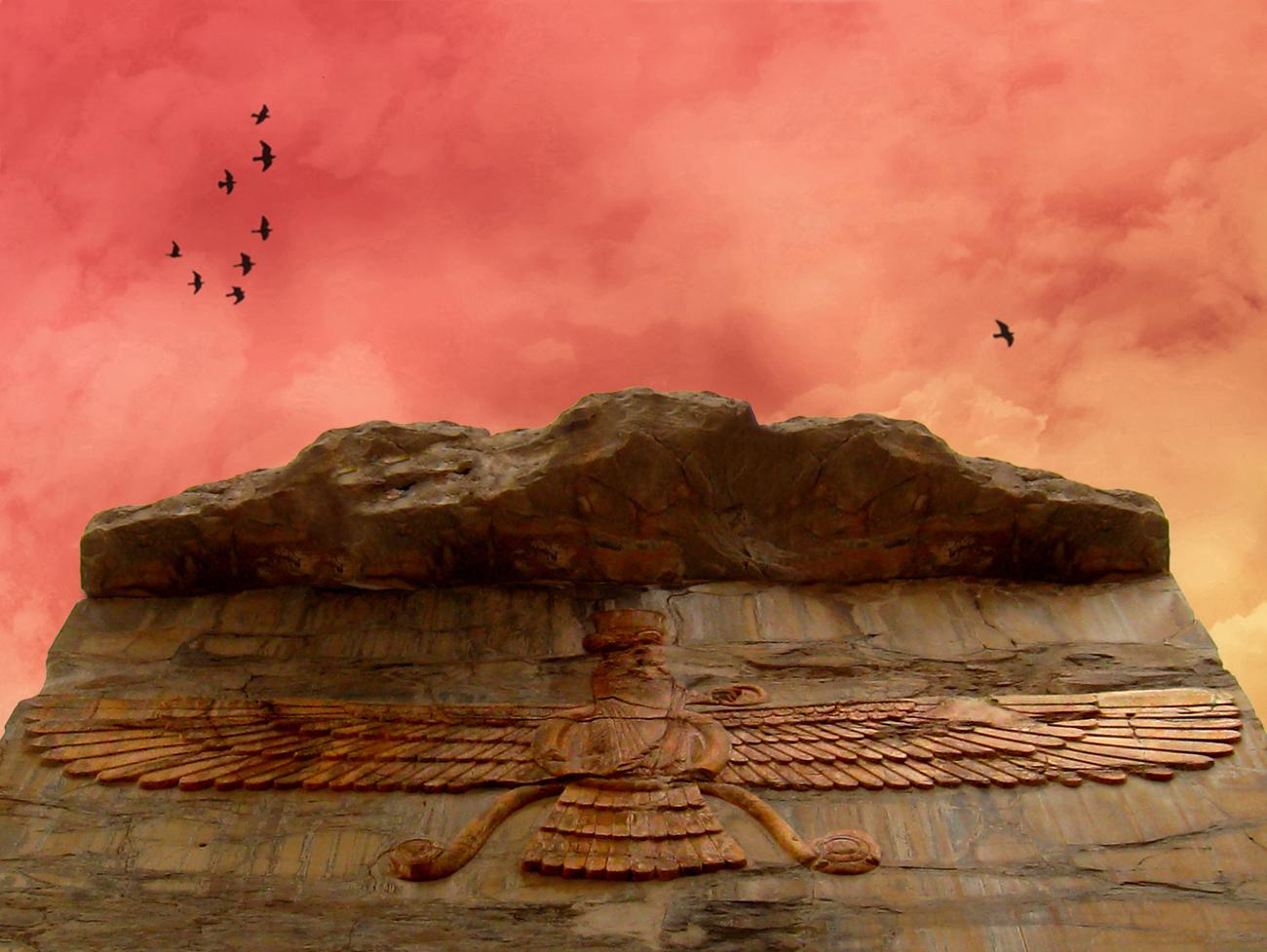 HDR image of Faravahar carved in stone at Persepolis, Iran.